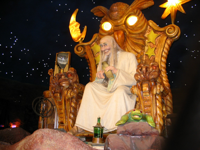 Father Time in his Time House, amusement park Sprookjeswonderland, Enkhuizen, The Netherlands